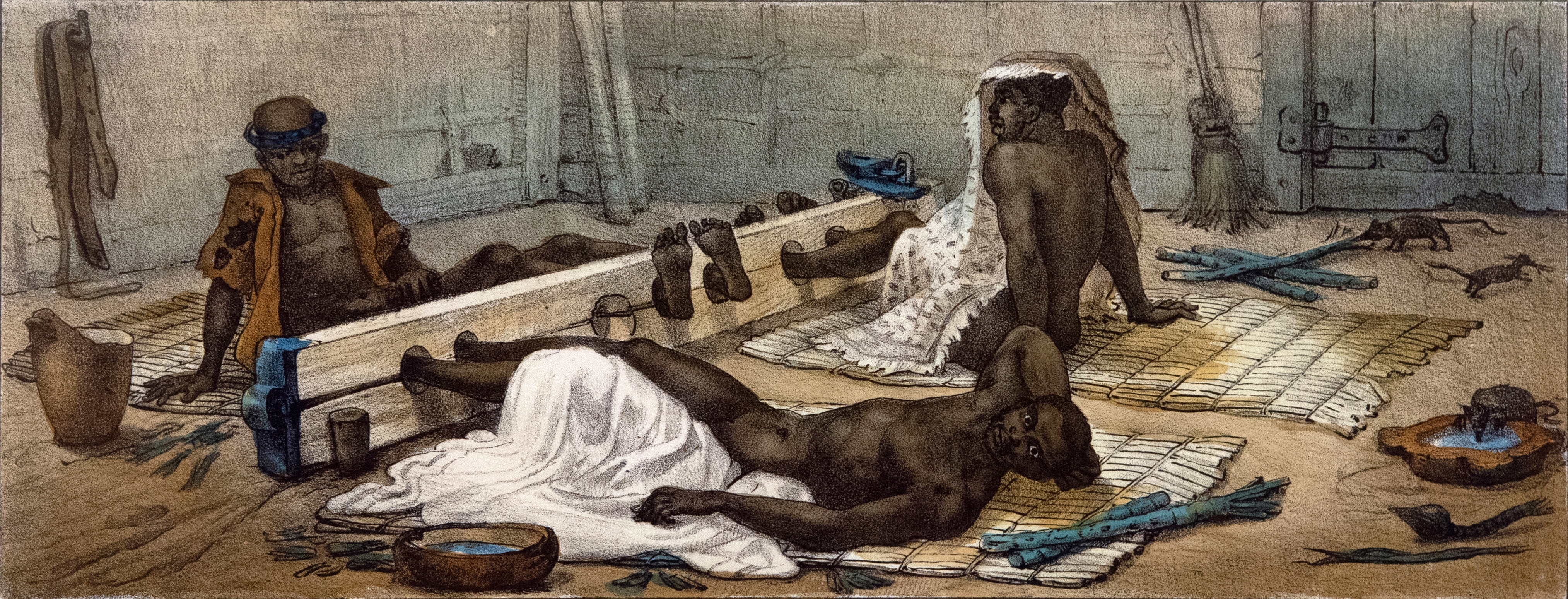 Black slaves on pillory in Brazil circa 1830